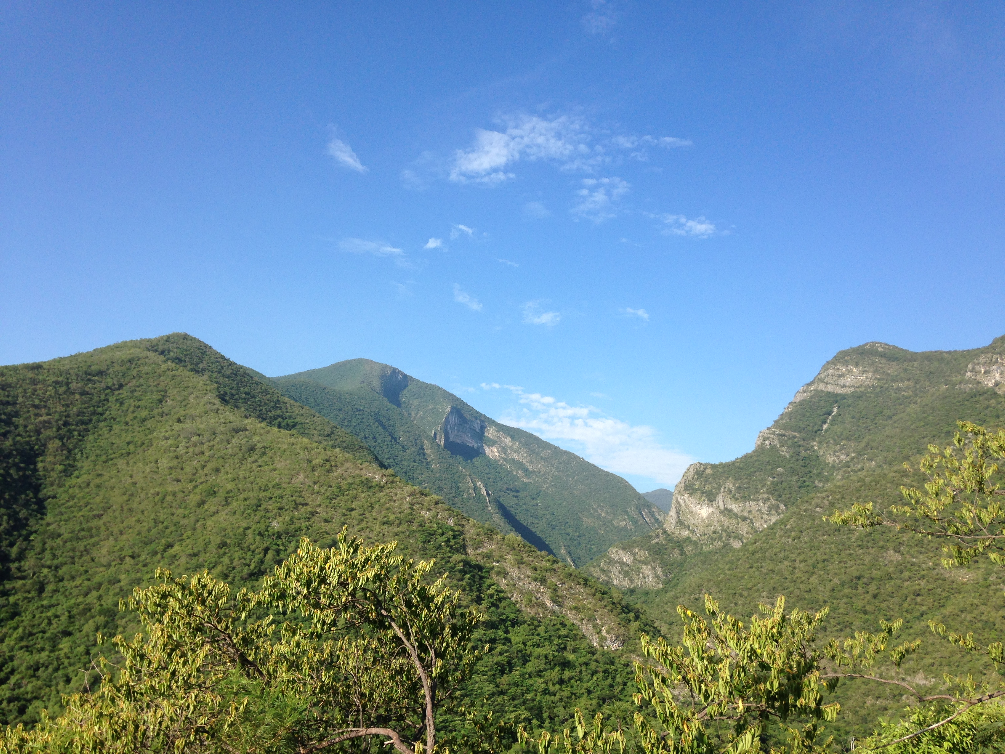 Cerros de la Sierra Madre Oriental en el Campo Militar del 77 batallón de Infanteria en Ciudad Victoria